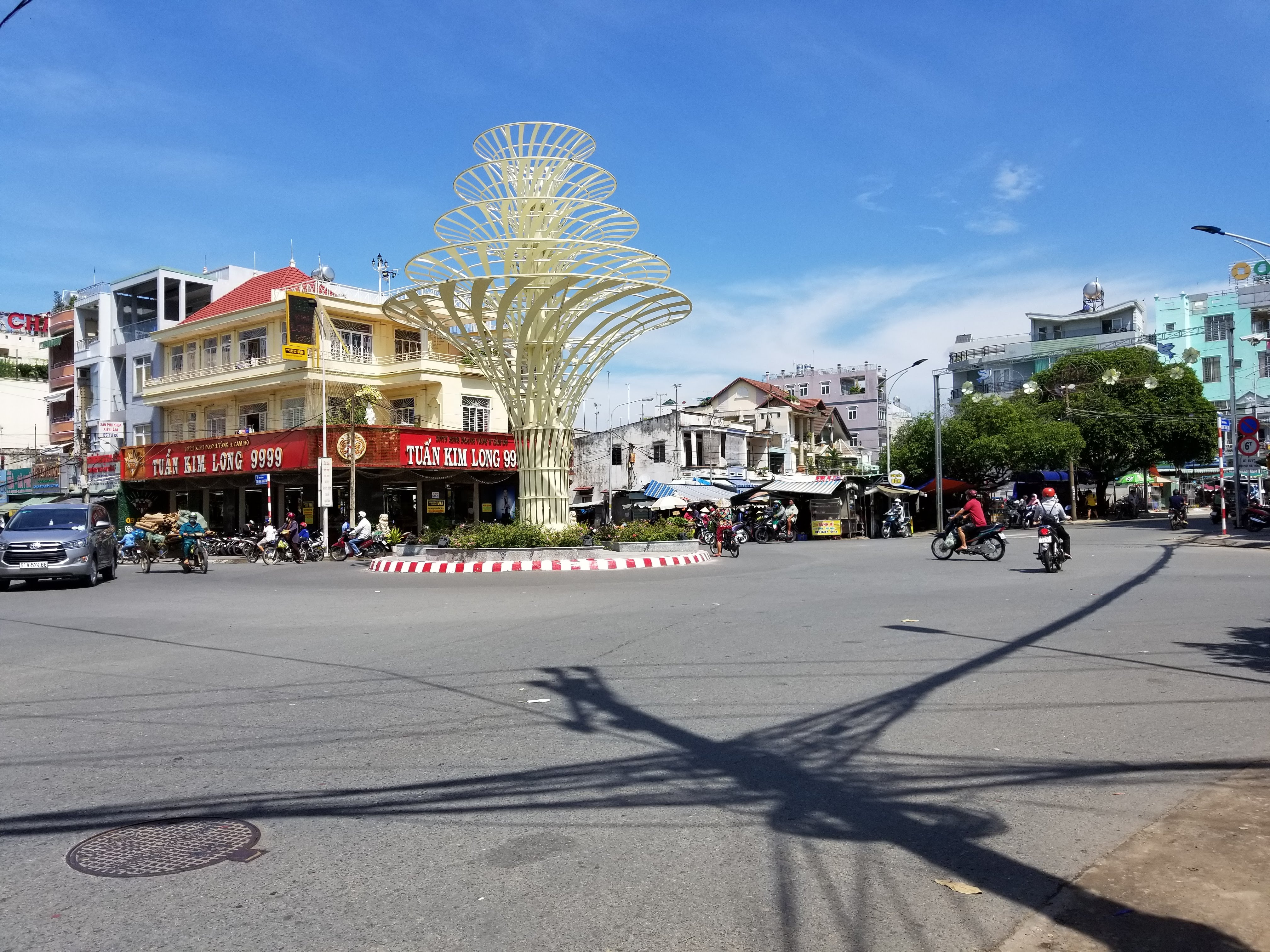 Lai Thieu market's roundabout (took on June 18th 2020).